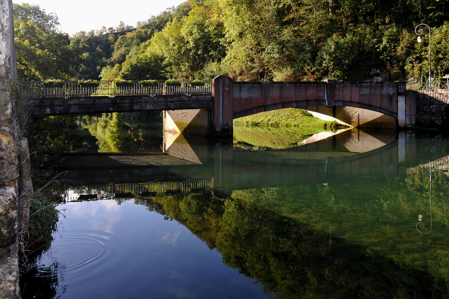 Bridge over the Loue in Lods; Doubs, France.